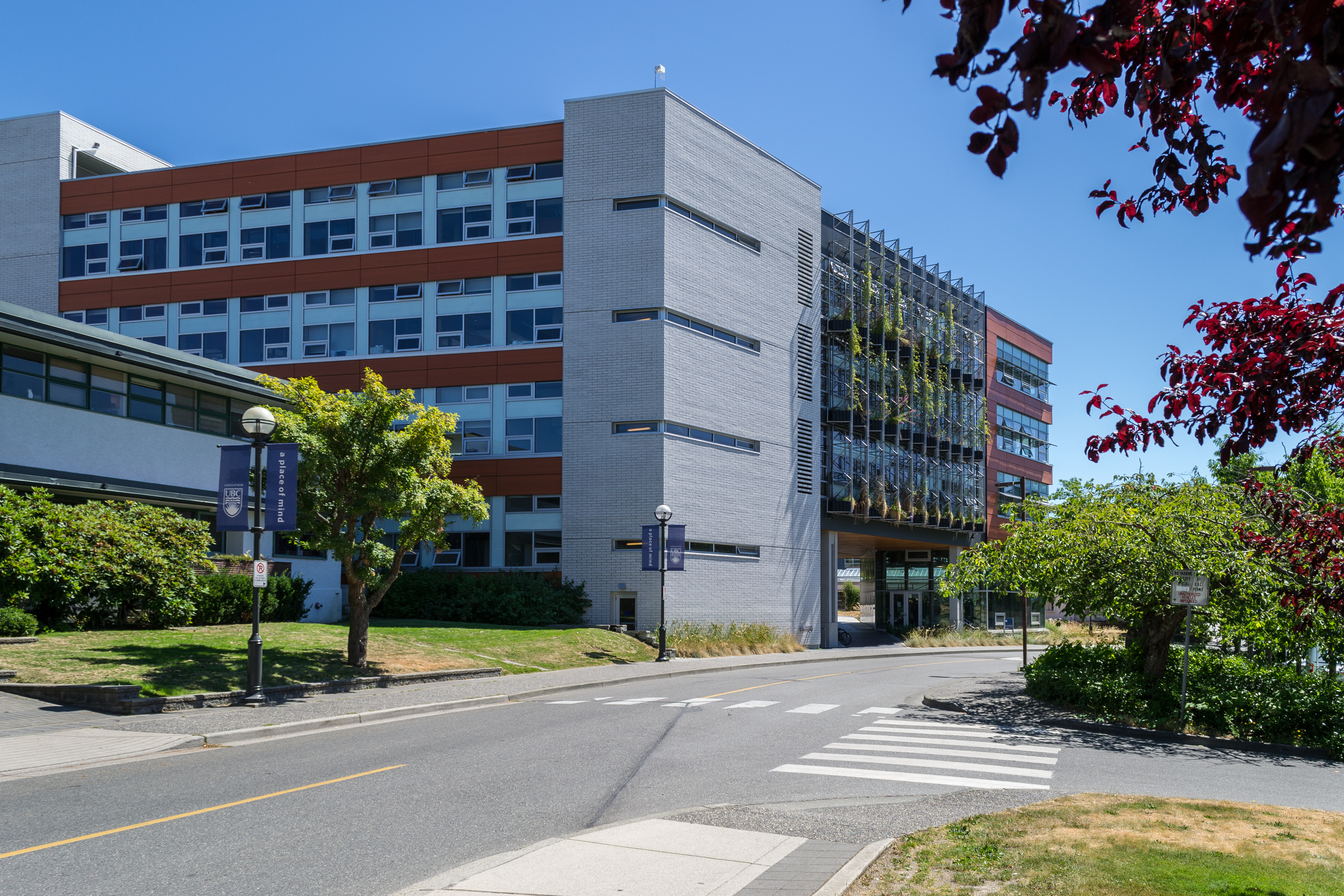 Centre for Interactive Research on Sustaintability, University of British Columbia. Completed in 2011. 2260 West Mall, Vancouver, Canada